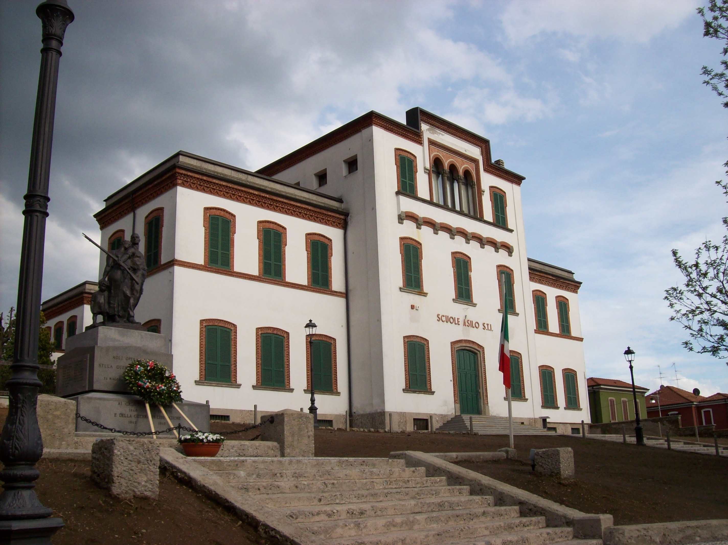 Crespi d'Adda workers' village (Capriate San Gervasio, province of Bergamo, Italy): the school